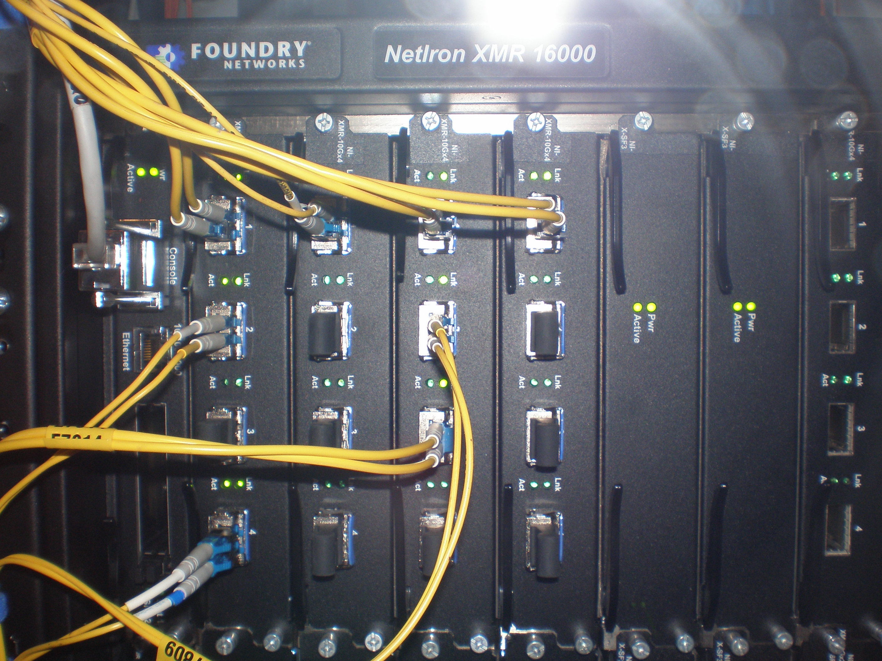 Foundry Networks NetIron XMR 16000 with 10GigE Optical Interface